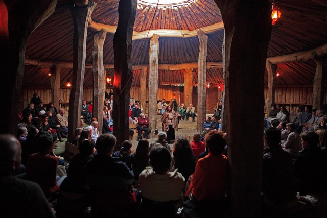 Story telling at Ancient Technology Centre, Cranborne. Gayle Ross, visiting from the USA, tells traditional stories of the Cherokee people in the Earth House.